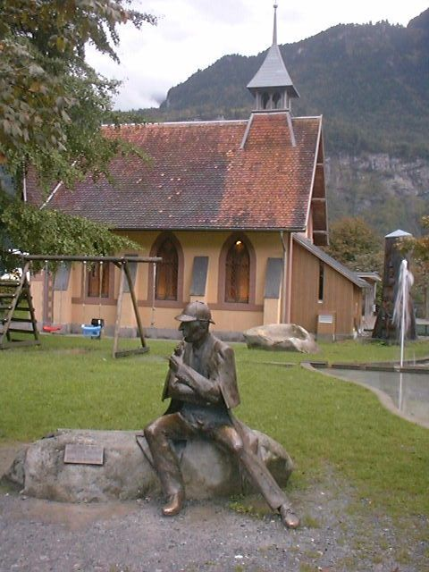 A statue of Sherlock Holmes outside the English chapel in Meiringen, canton of Bern, Switzerland. The church houses a reconstruction of Holmes's famous study at 221b Baker Street, London. Just as at the Reichenbach Falls (see below) provision is made for the tourist - the plinth is extended to the left and Holmes is turning in that direction, enabling pictures such as the first in this gallery. See also: Image:02924a reichenbach.jpg, Image:029251 reichenb holmes.jpg